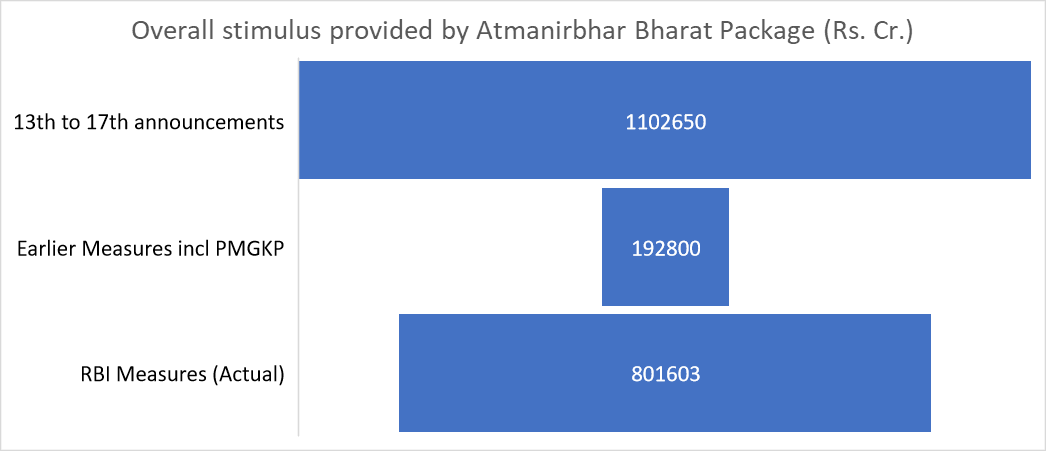 Overall stimulus provided by Atmanirbhar Bharat Package